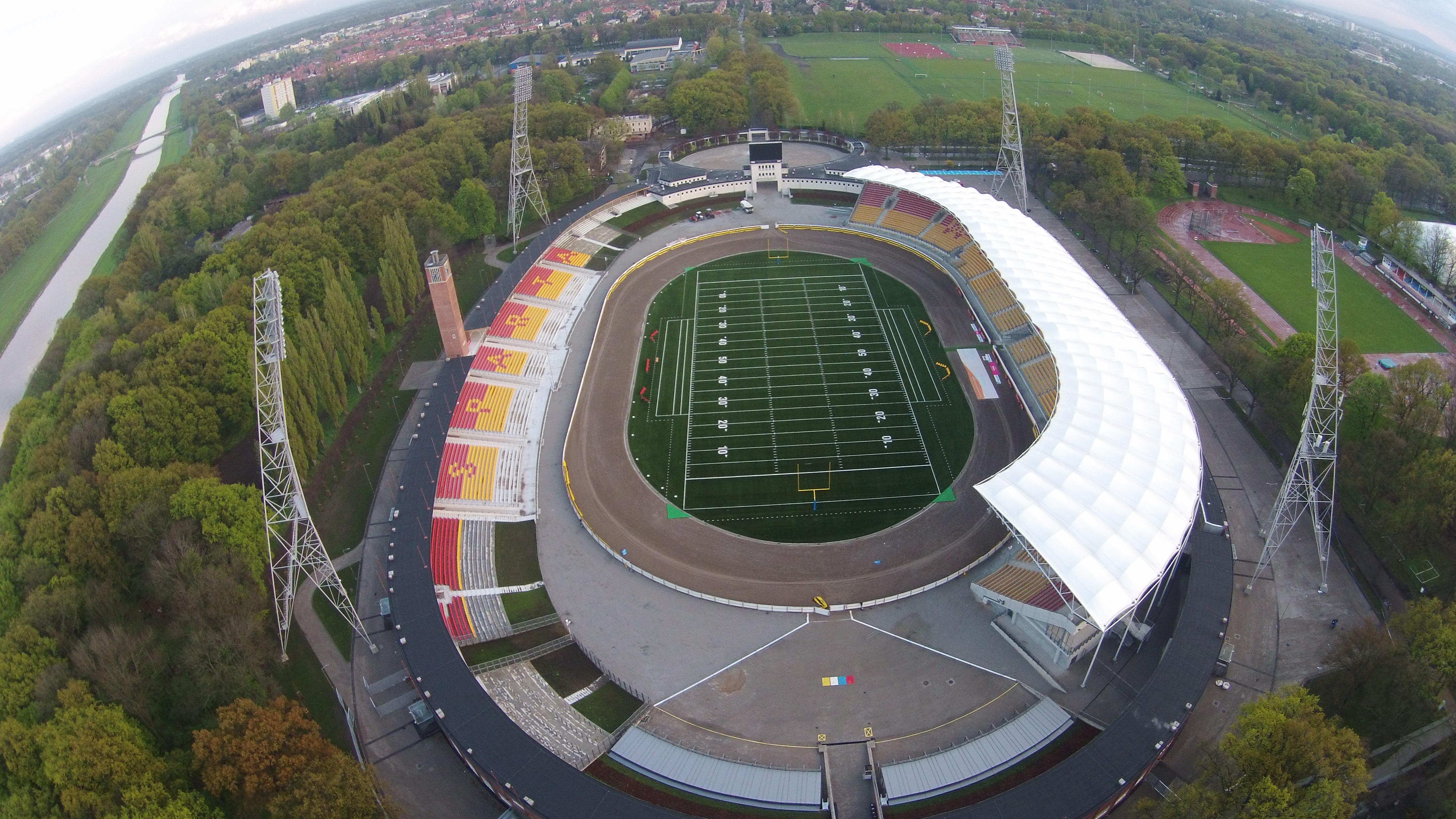 Olympic Stadium in Wrocław